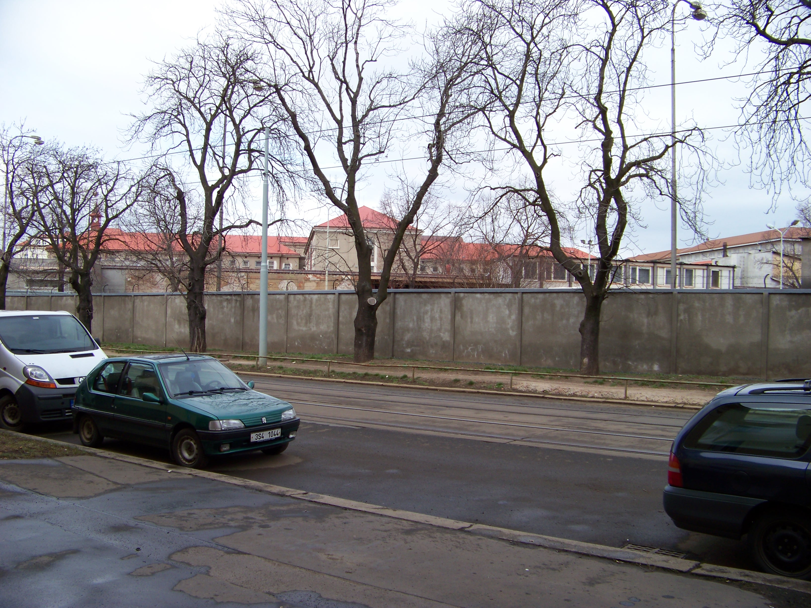 Prague-Nusle, the Czech Republic. Soudní street, Pankrác prison.